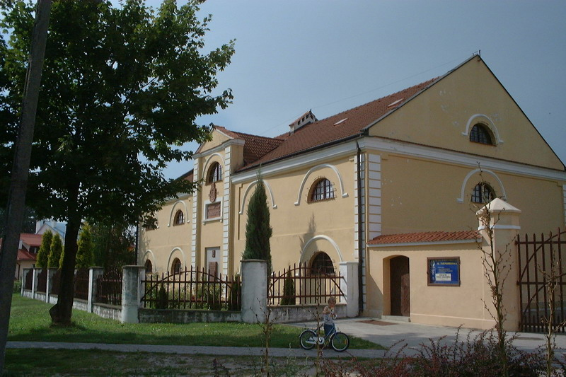 Poland, Tarnobrzeg - Museum of City History, placed in old granary